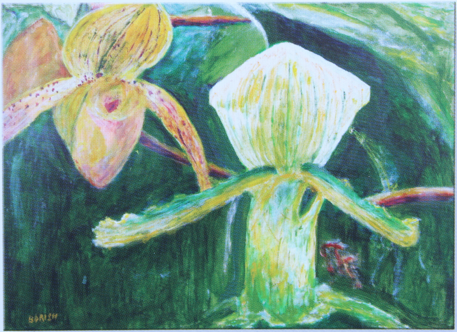 Photo of the painting by Dr Irvin Borish from 1996 titled Orchids. This is a part of Beth Roman's collection.